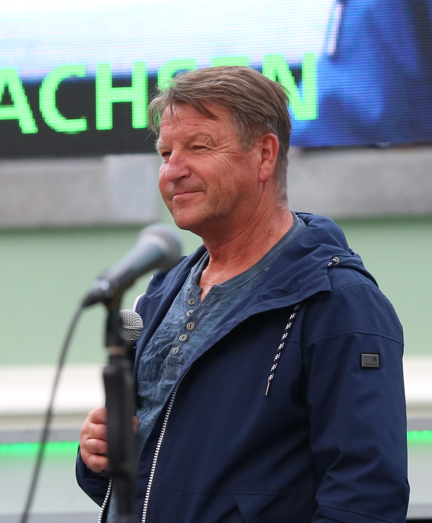 Dixie Dörner at the Tag der Sachsen 2017 in Löbau; MDR Sachsen stage at the Altmarkt